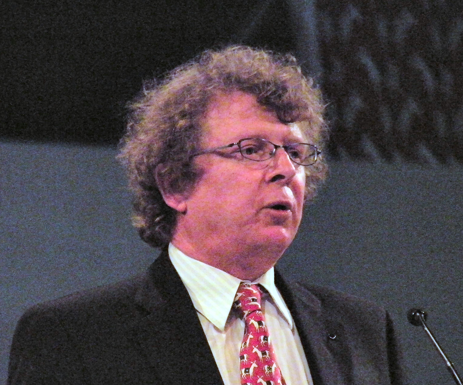 Richard Younger-Ross MP addressing a Liberal Democrat conference in the Bournemouth International Centre